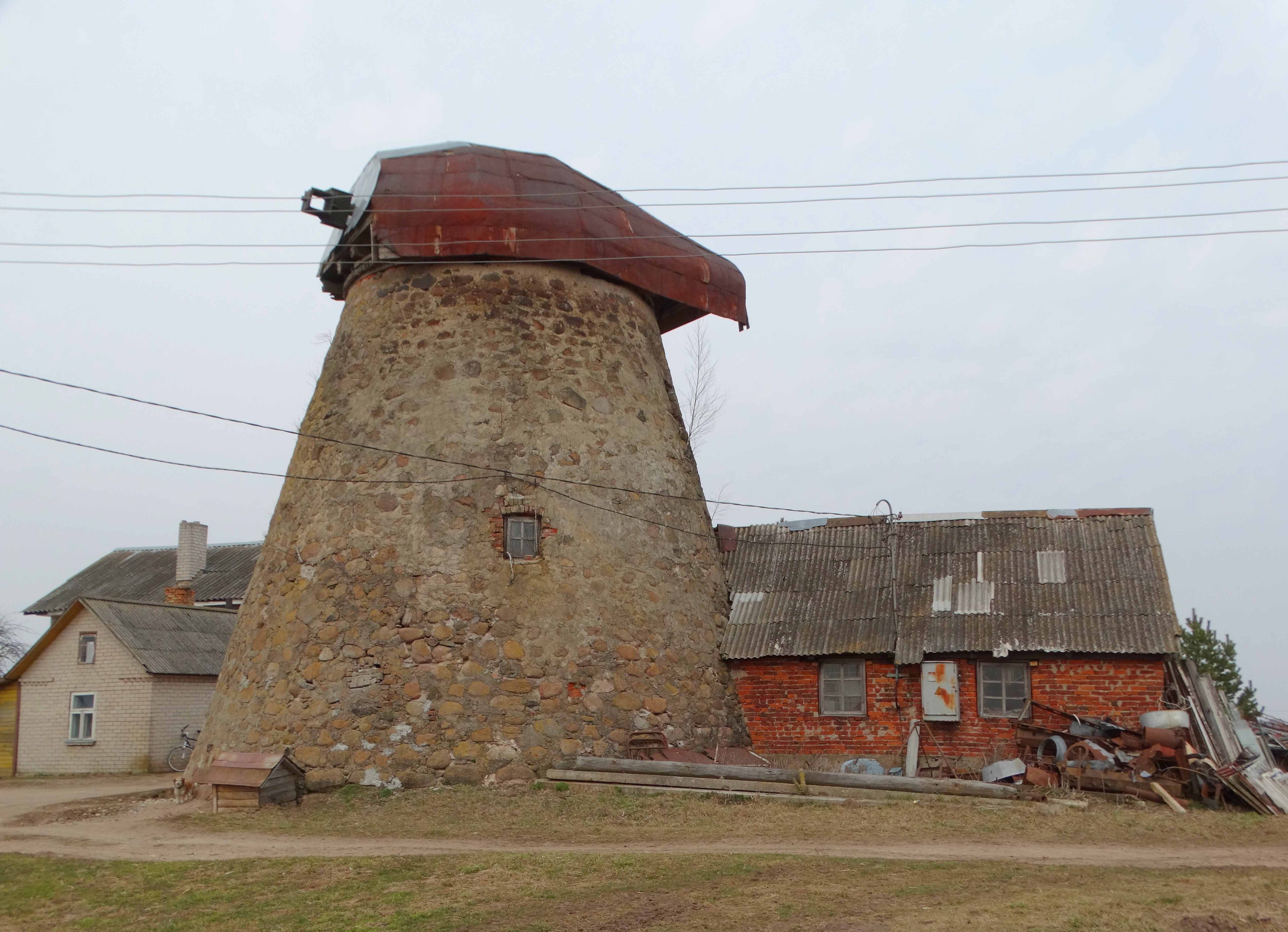 Windmill in Sodeliškiai, Panevėžys District, Lithuania